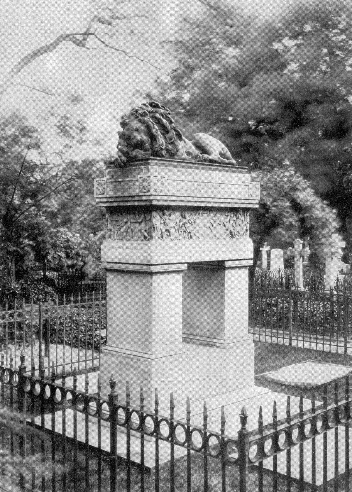 grave of Gerhard von Scharnhorst on Invalidenfriedhof cemetery in Berlin in 1925, designed by Karl Friedrich Schinkel